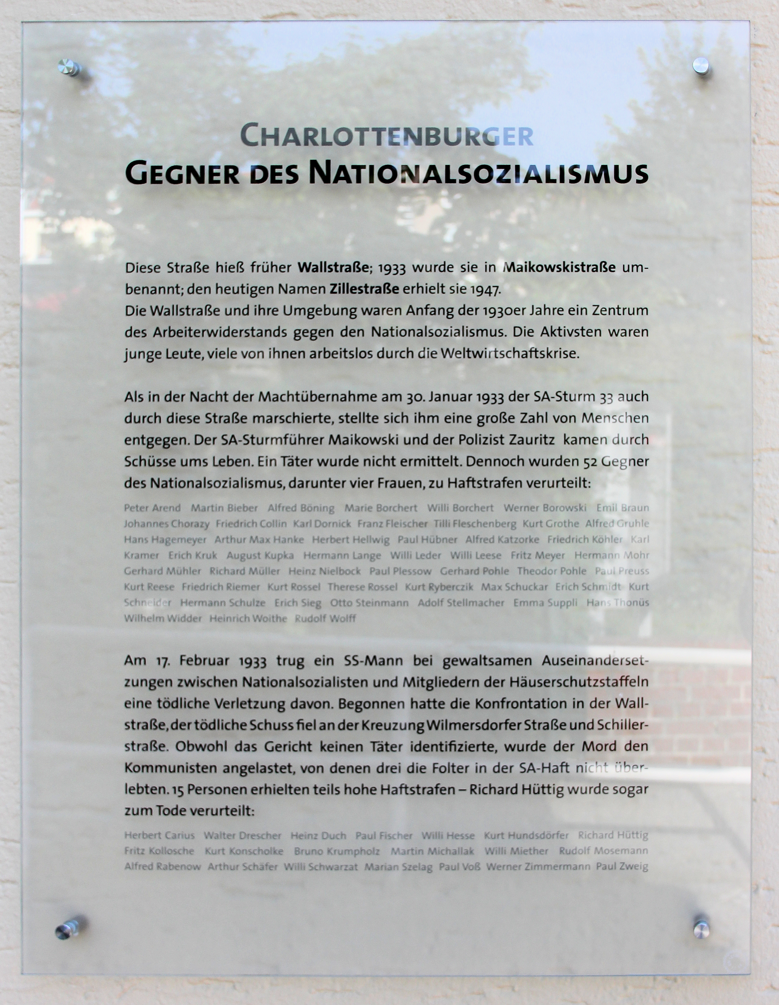 Memorial plaque, Widerstand gegen den Nationalsozialismus, Zillestraße 54, Berlin-Charlottenburg, Germany Koordinate:52°30′49″N 13°18′29″E / 52.51361°N 13.30806°E